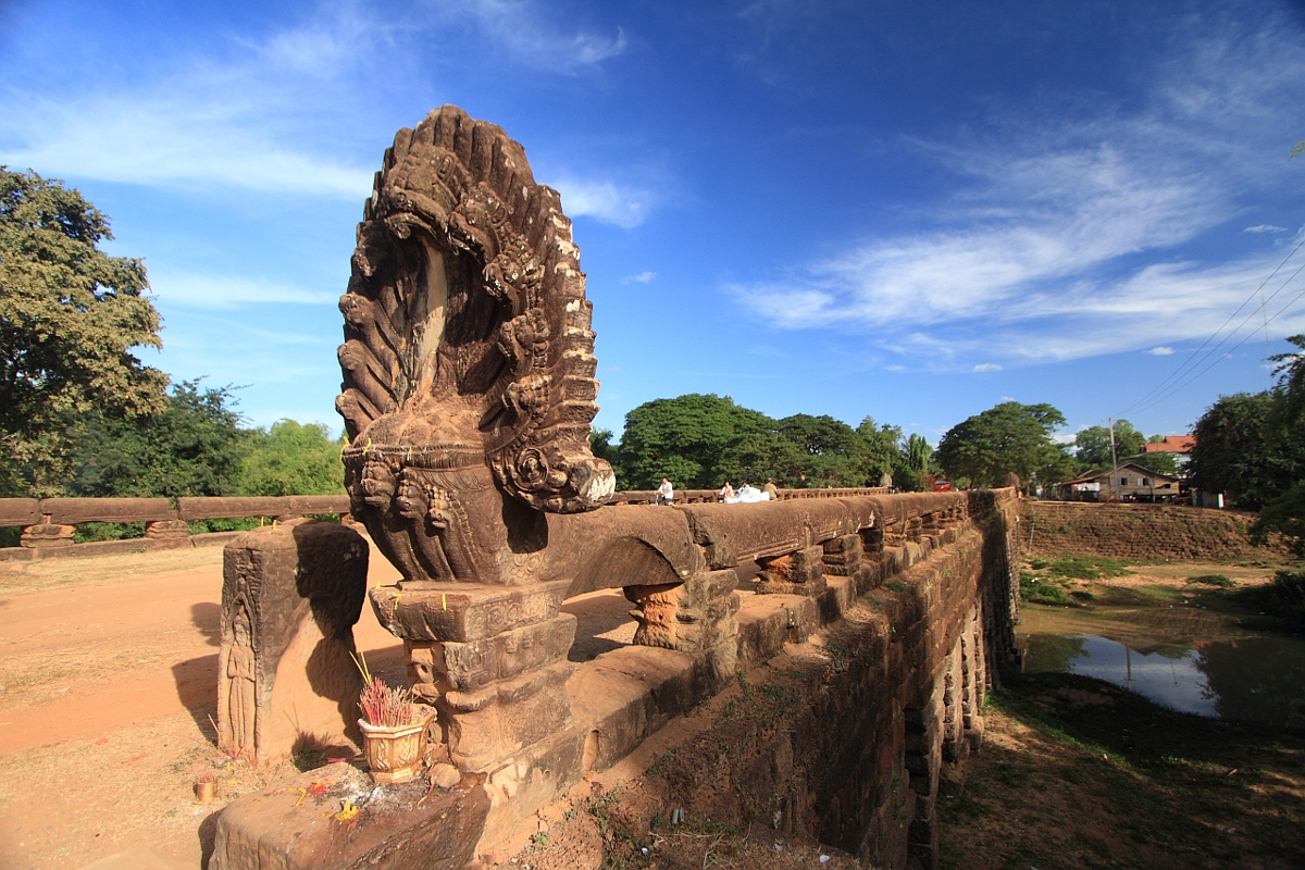 Spean Praptos, an old Khmer bridge in Kompong Kdei, Cambodia